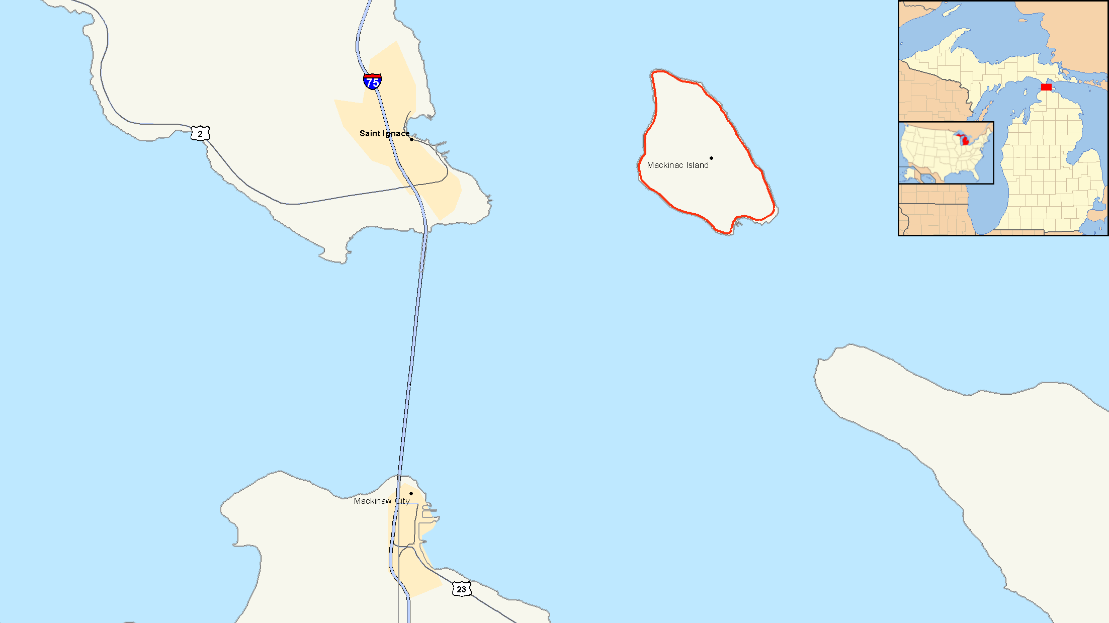 Map of the Straits of Mackinac showing M-185 M-185 Interstate Highways Other state highways Land